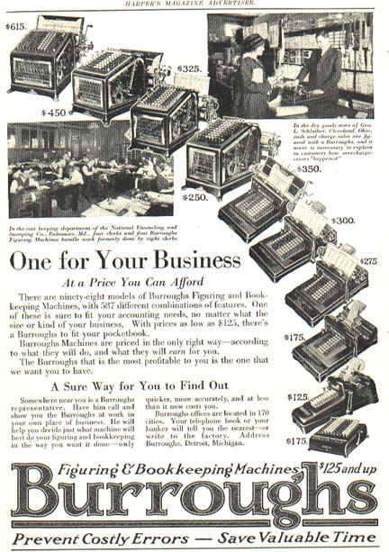 Burrough's Adding Machines Co. Ad, 1911